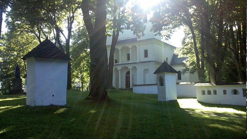 Slanica island - Orava reservoir